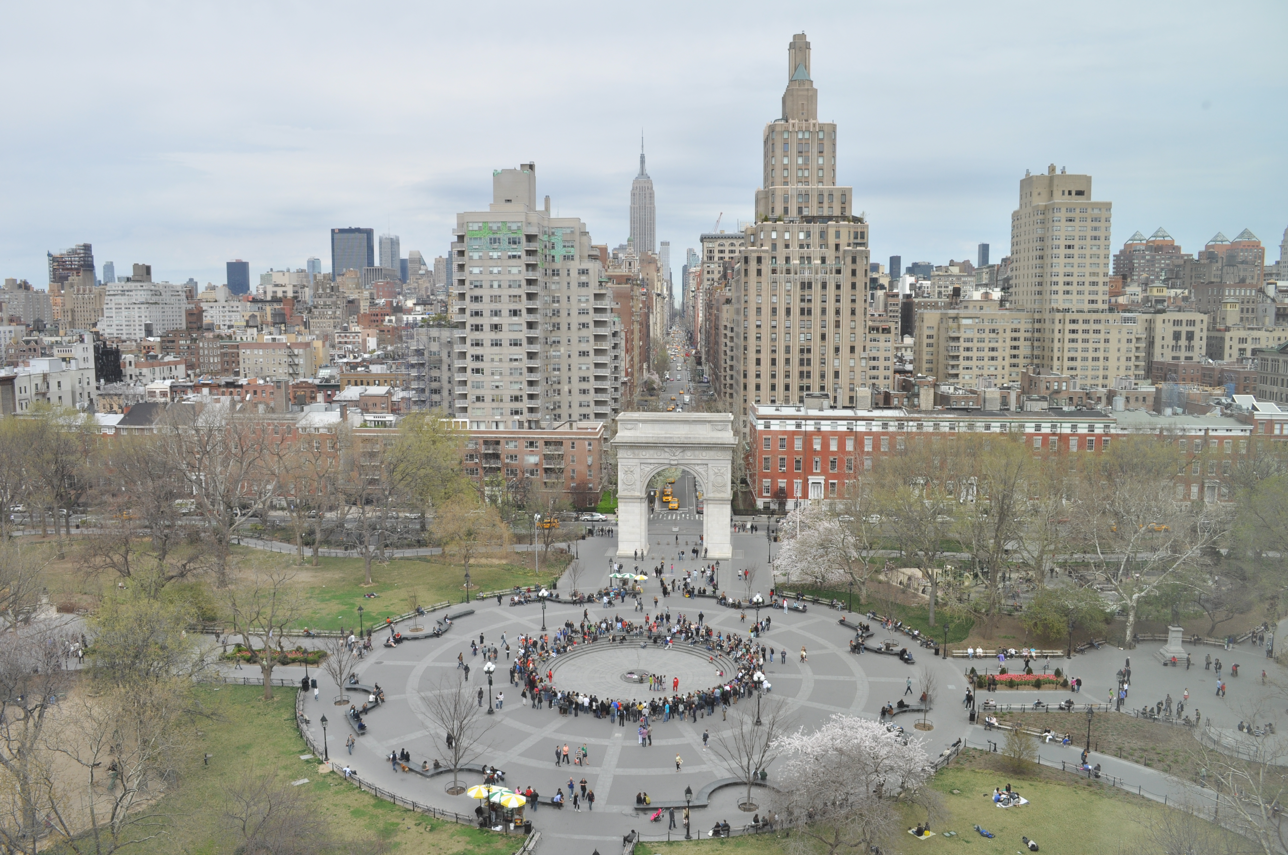 Washington Square Park from the 9th floor of NYU's Kimmel Center, on the south side of the park.